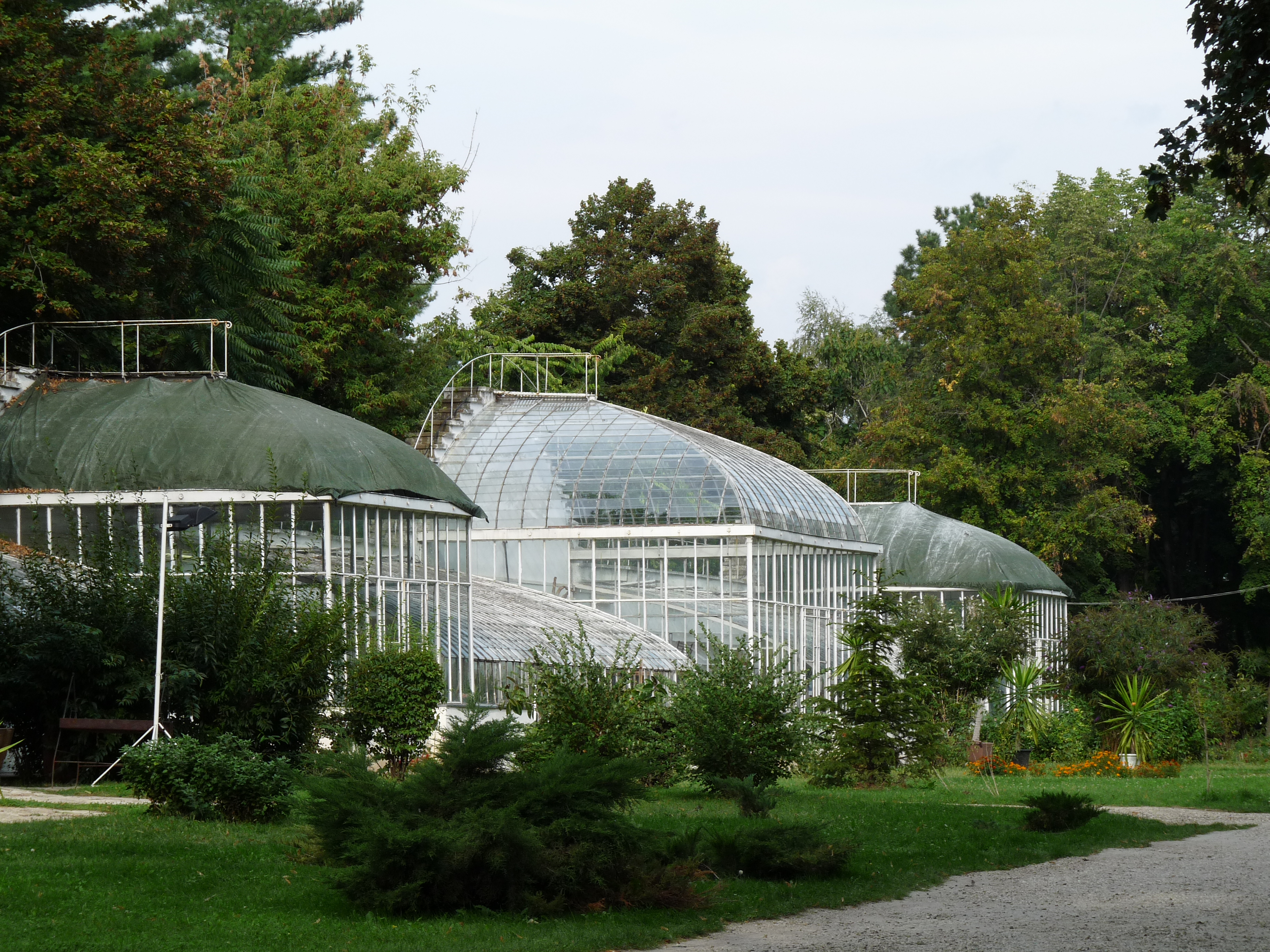 Mogoşoaia Palace, Ilfov County, Romania: the glass houses, initially built in 1890 and restored in 2003